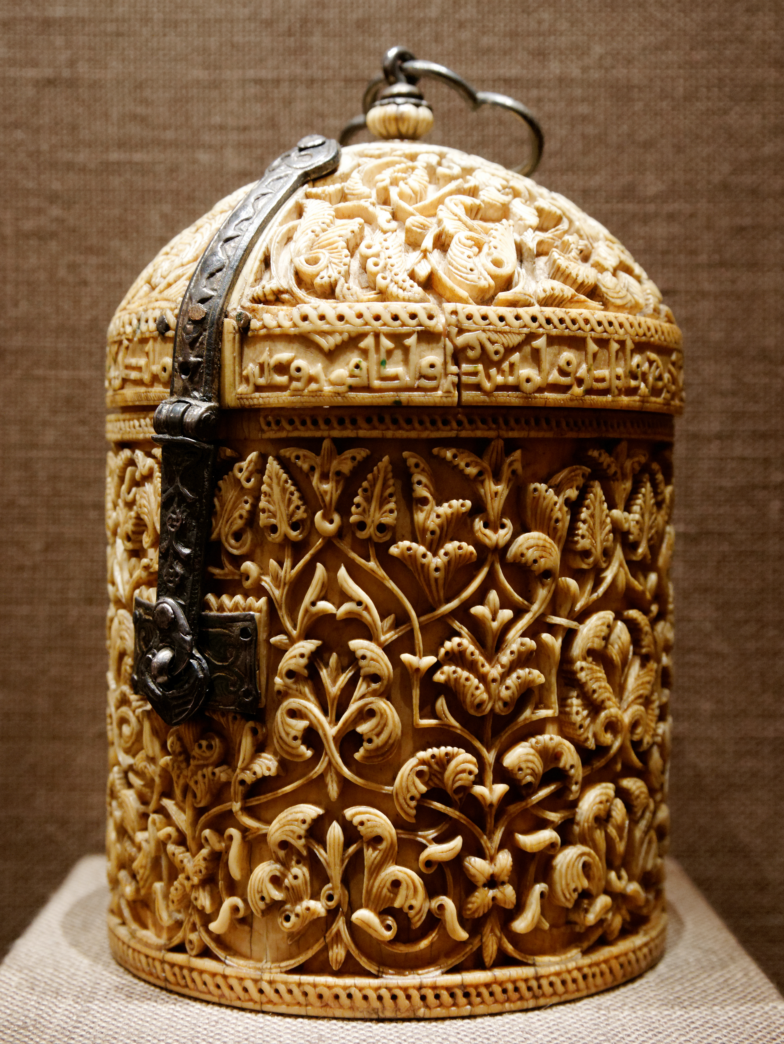 Pyxis with an Arabic inscription, Spanish Umayyad art.